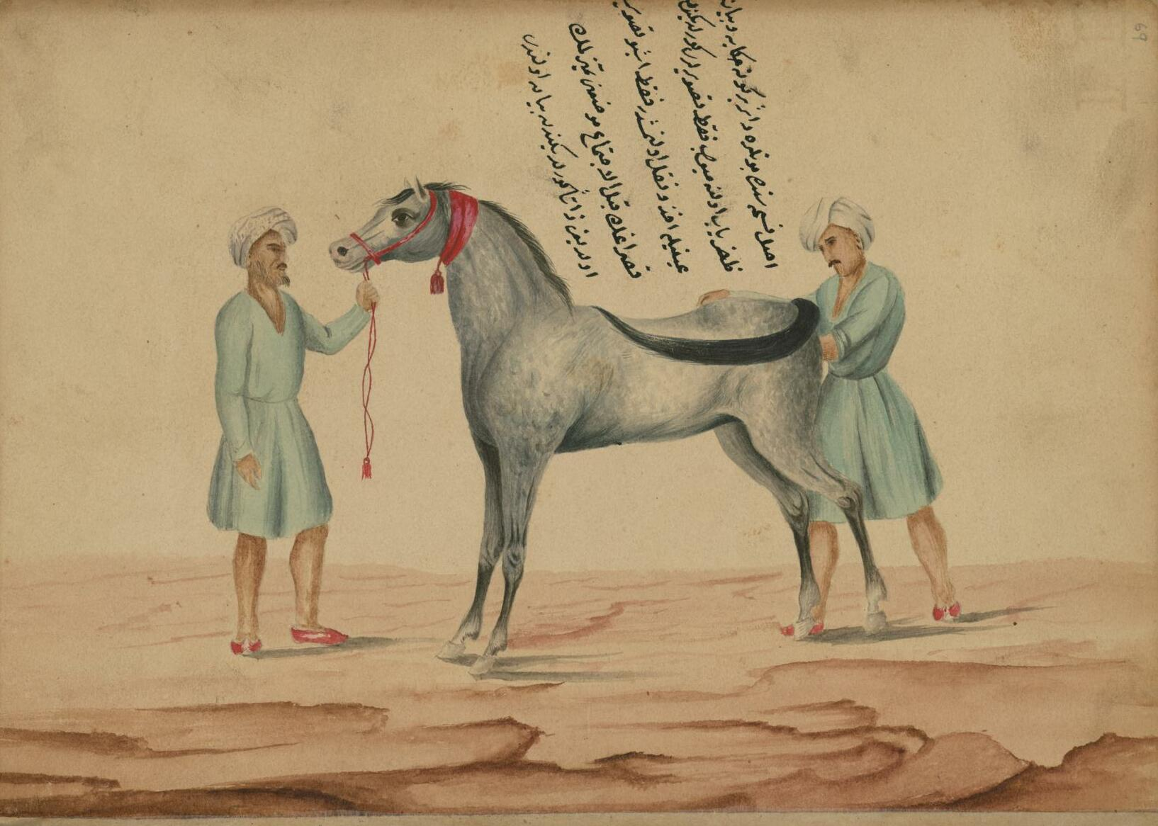 This folio from Walters manuscript W.661 depicts men washing a mare.